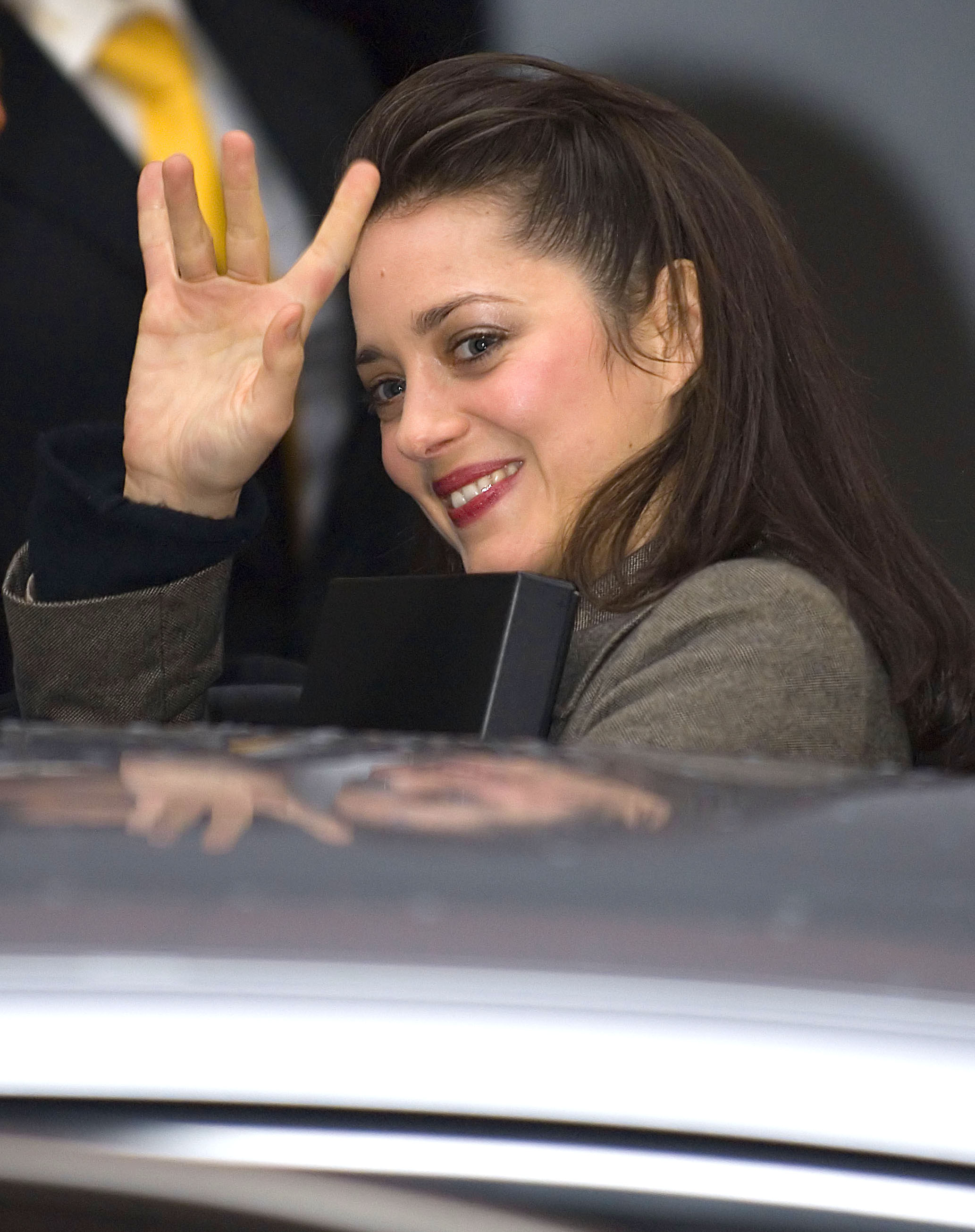 French actress Marion Cotillard leaving the press conferenz of "La vie en rose" at Hyatt Hotel